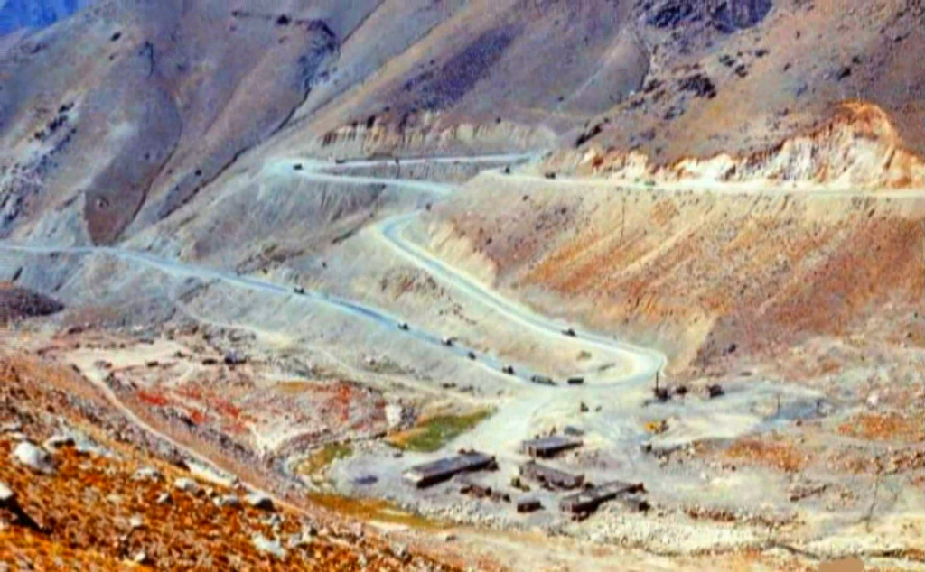 Soviet war in Afghanistan: A convoy of army trucks and lorries moving along the serpentine Afghani mountain road.Courtesy of the 5th airborne company trooper Sergey Novikov.